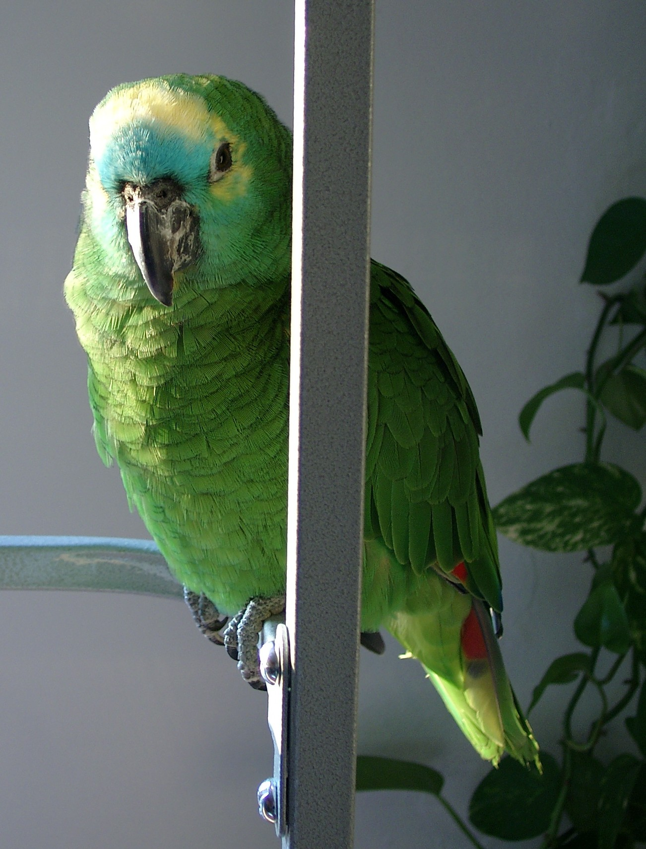 Blue-fronted Amazon, a pet parrot perching on a stand.